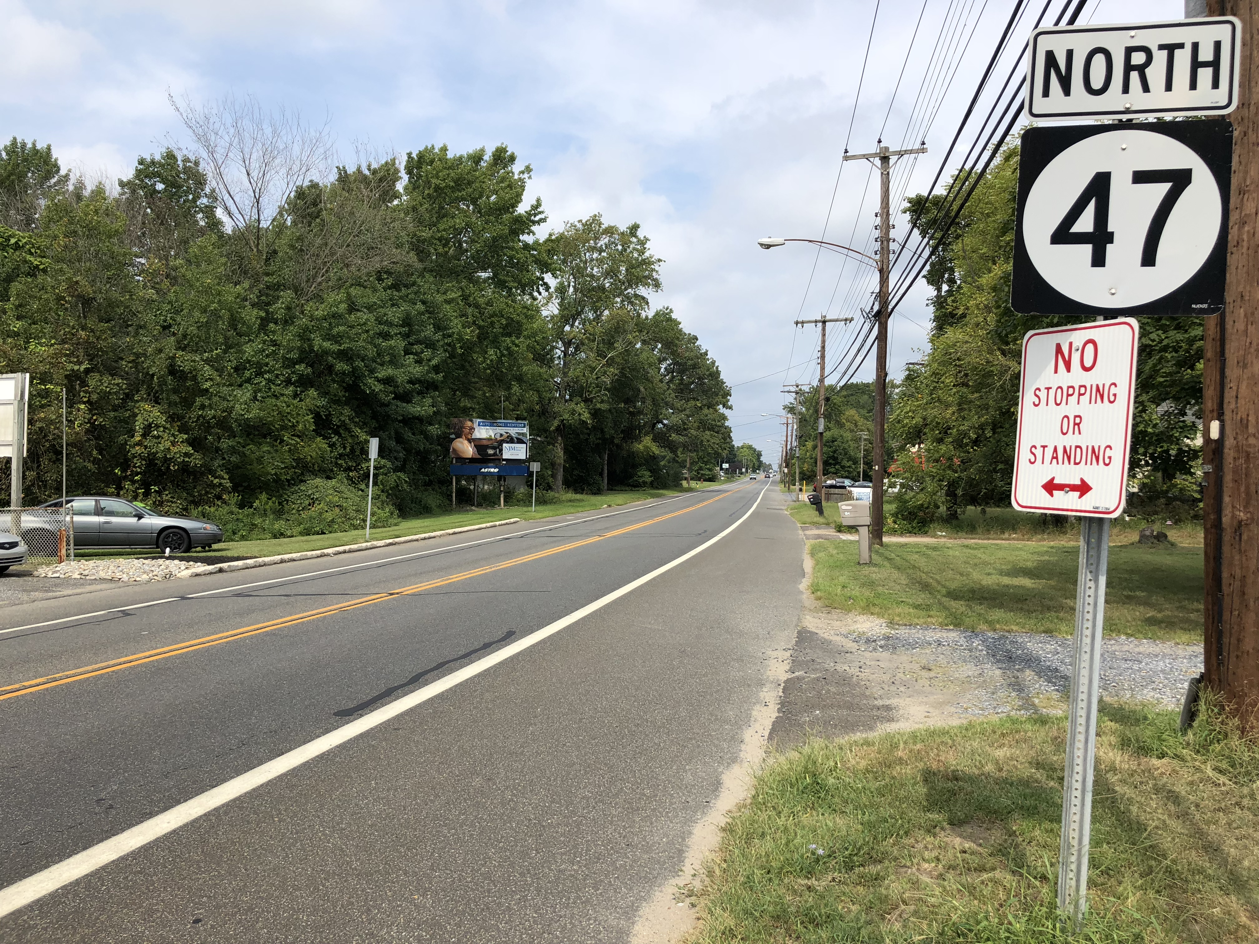 View north along New Jersey State Route 47 (Delsea Drive) just north of Stanger Avenue in Glassboro, Gloucester County, New Jersey